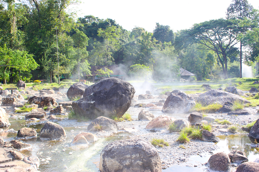 อุทยานแห่งชาติแจ้ซ้อน Chaeson National Park